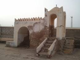 The Mosque of the Companions in Massawa.